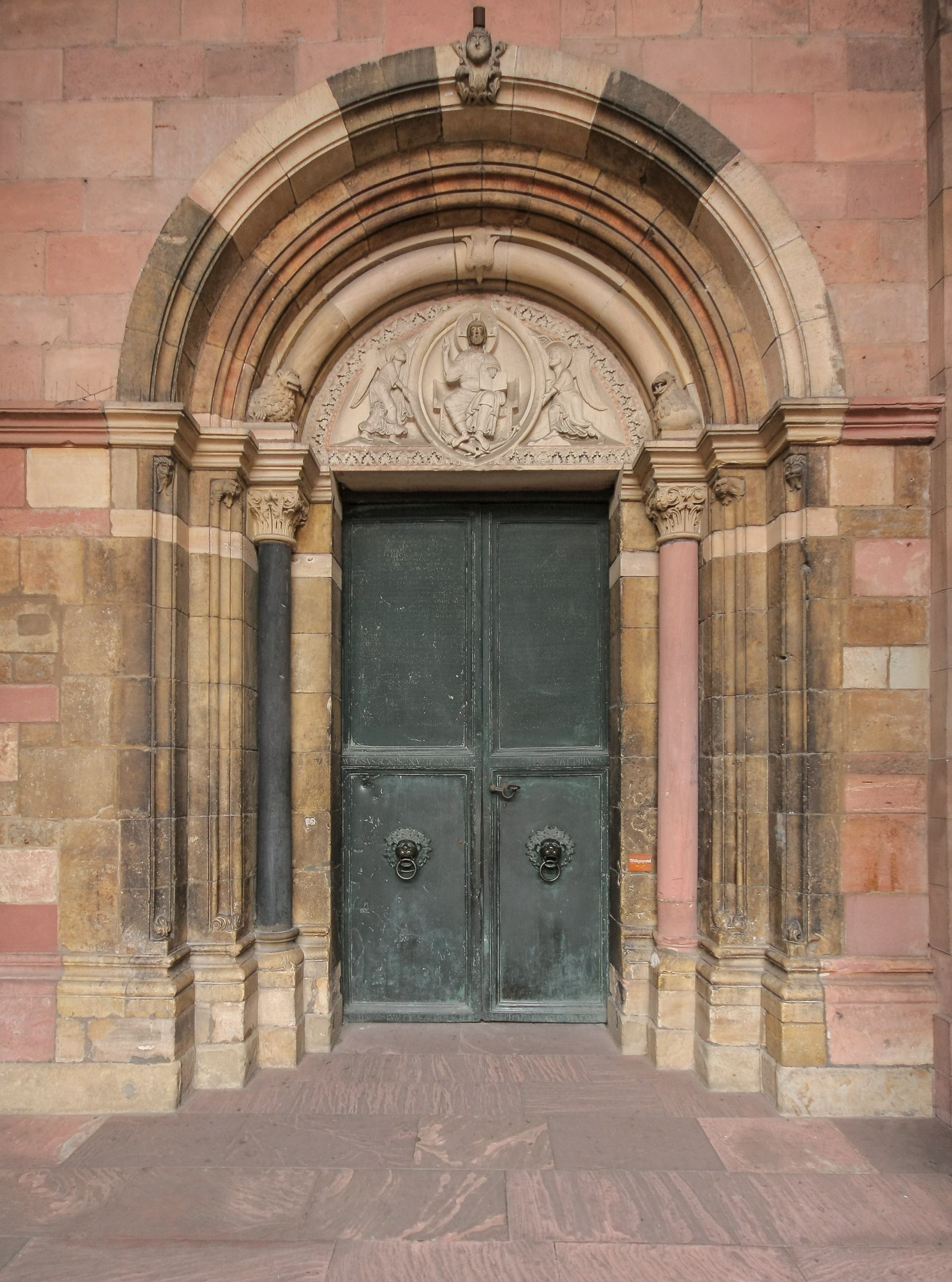 The Market Portal of the Mainz Cathedral. The huge bronze gates were casted on behalf of Archbishop Willigis. Archbishop Adalbert of Mainz ordered the engraving of the city rights in the upper part in 1135.